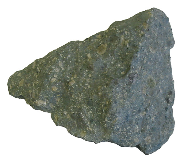 Photographer: Siim Sepp Date of the creation: 20th April, 2005.